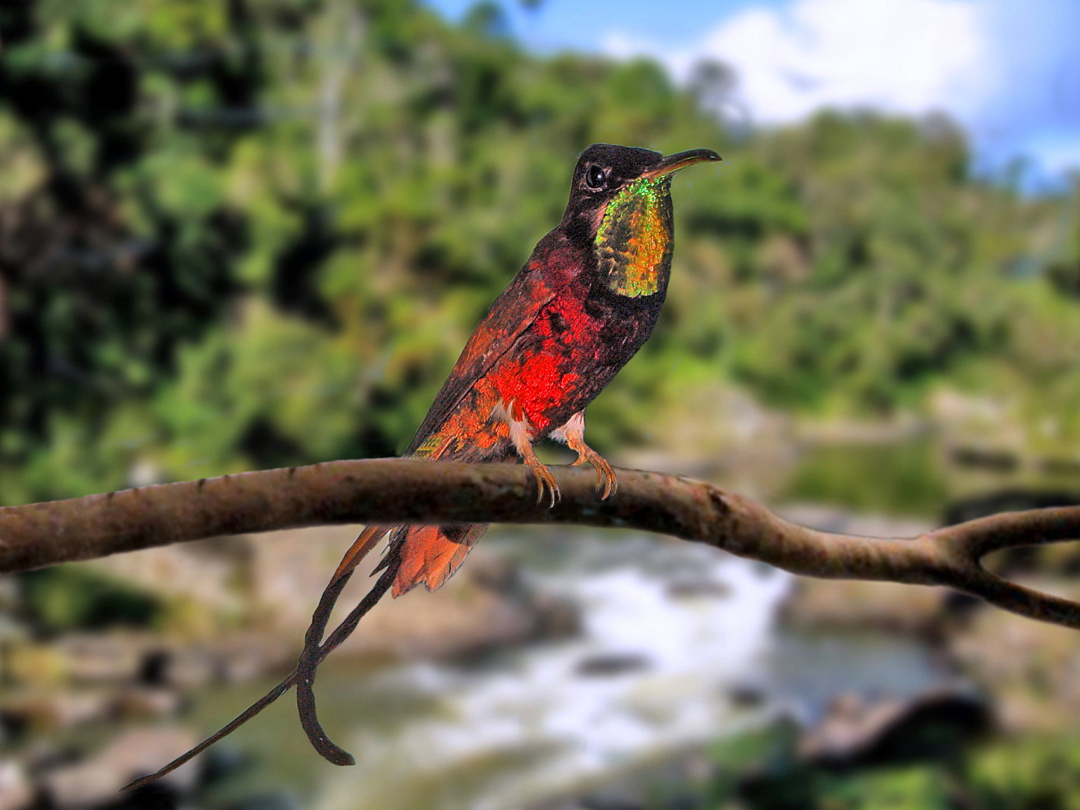 Topaza pyra, the fiery topaz. Photomontage of an image of a mounted specimen.